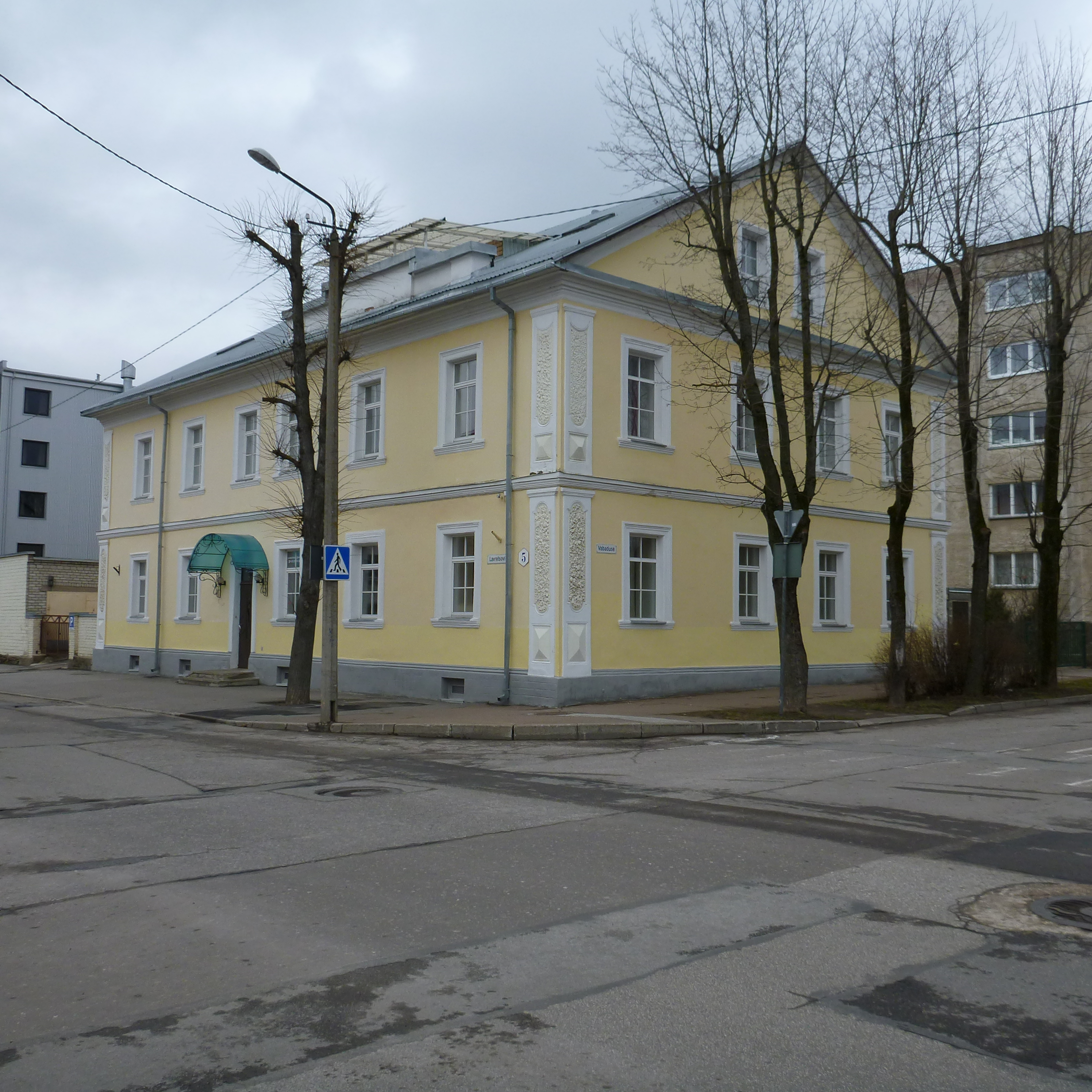 Central Hotel in the centre of Narva